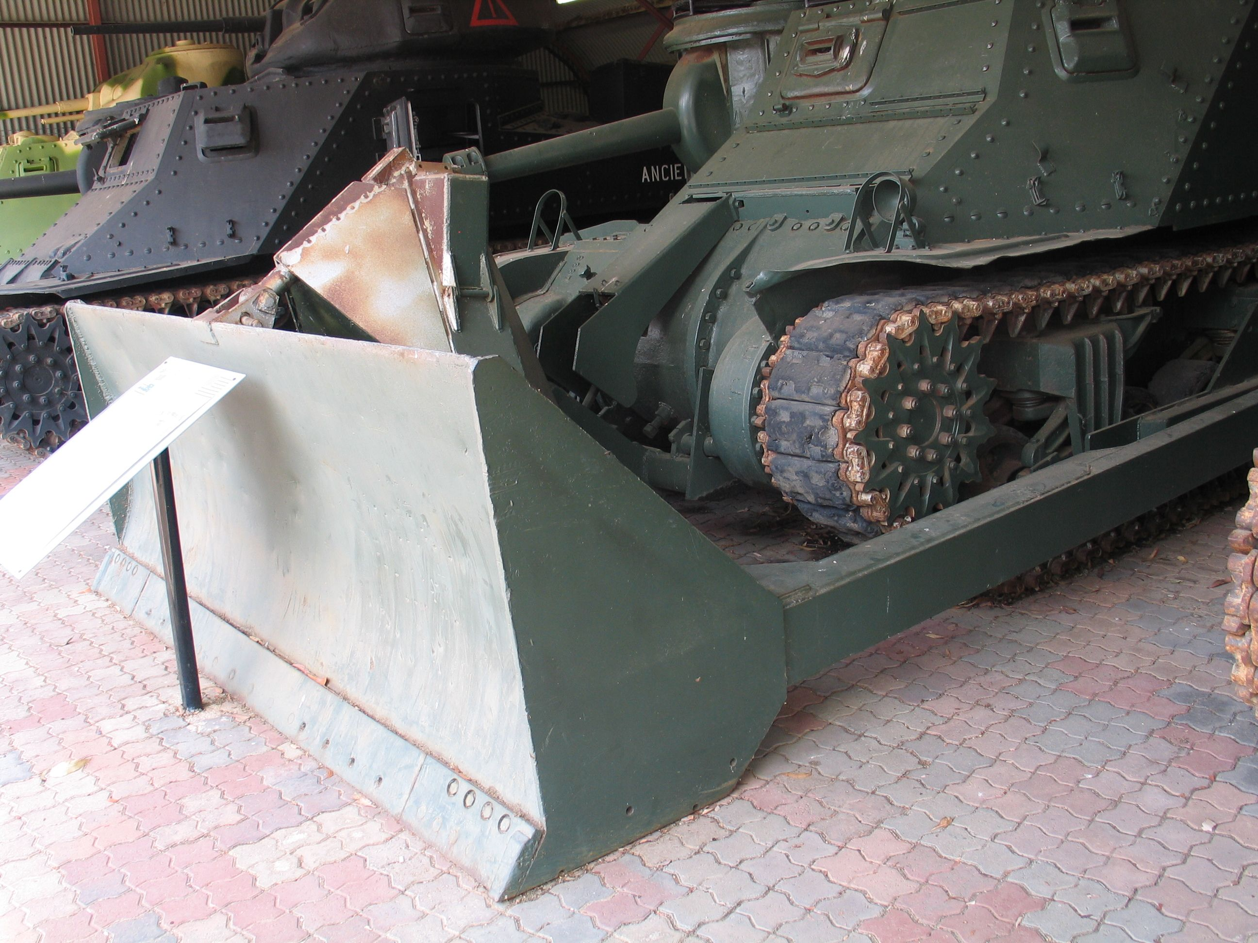 Grant Dozer in Royal Australian Armoured Corps Tank Museum, Puckapunyal, Victoria, Australia.